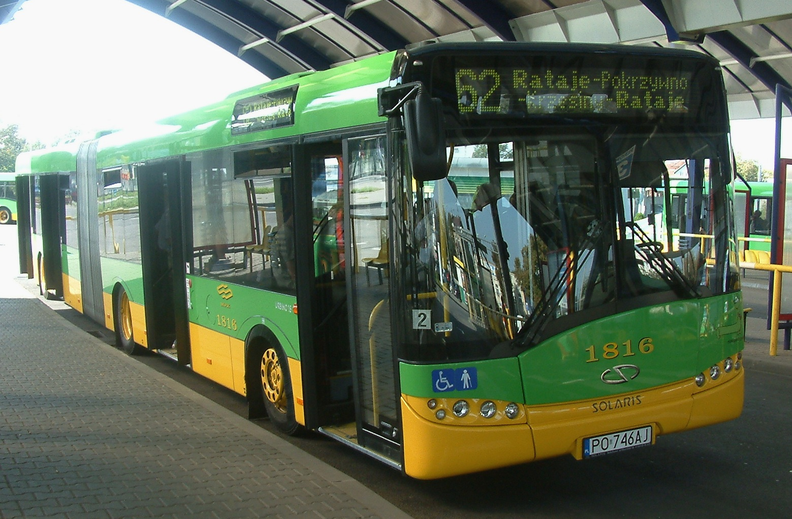 Solaris Urbino 18 (#1816) in Poznań, Poland. Built 2006, MPK Poznań operator.